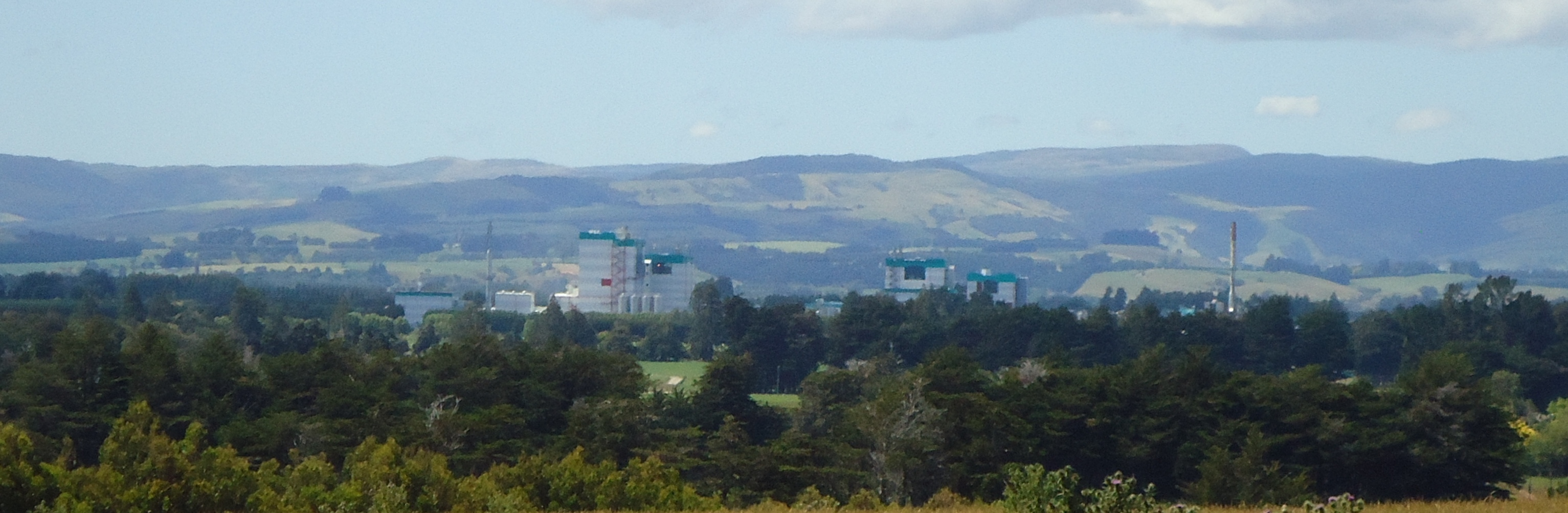 The Fonterra dairy factory dominates the Edendale skyline. Photograph taken from the top of the Edendale hill, looking eastward to Edendale, with the western Catlins in the background.